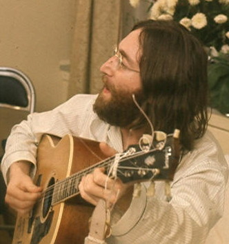 John Lennon rehearses Give Peace A Chance by Roy Kerwood.